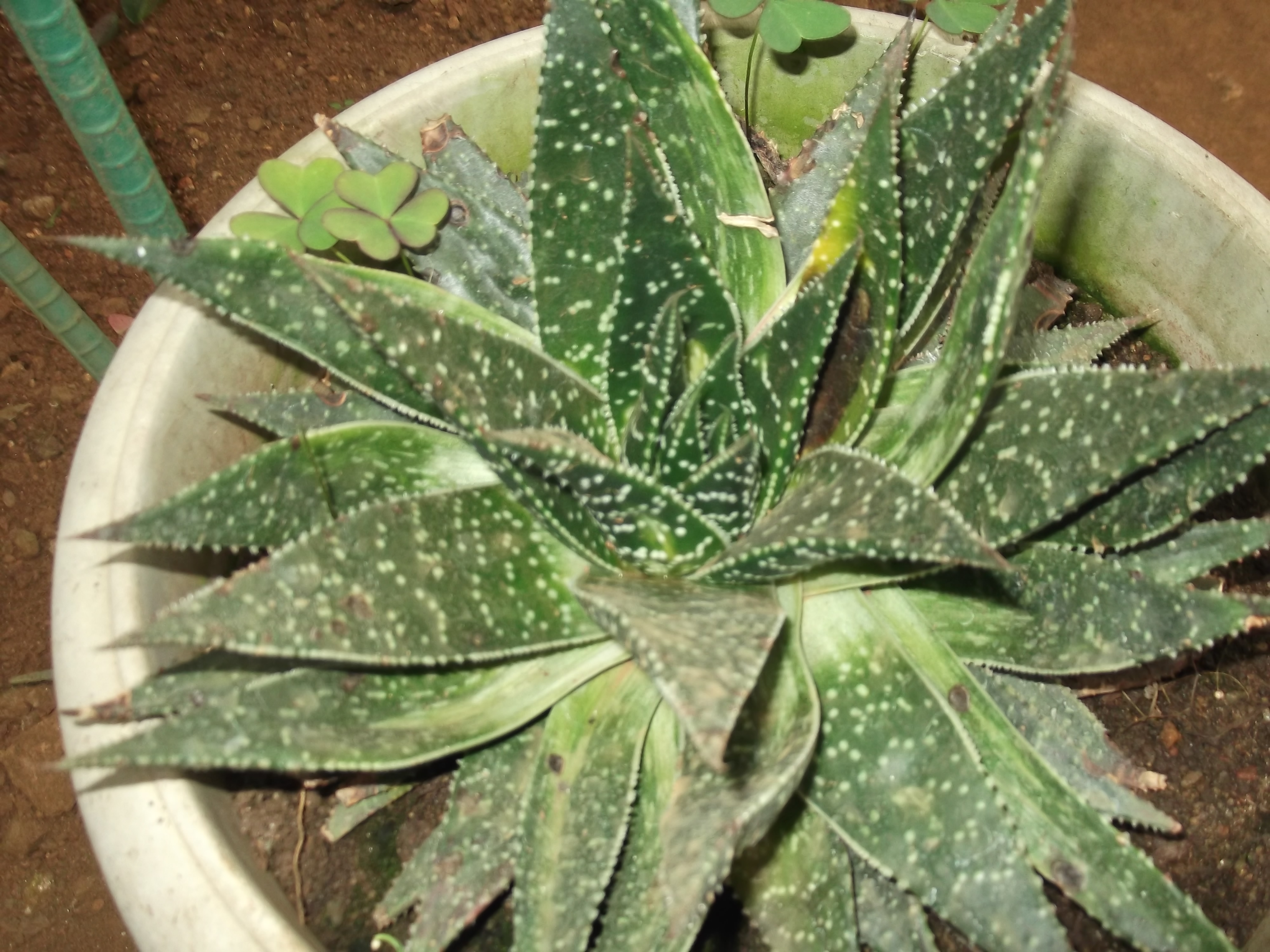 Aloe aristata x gasteria hybrids,leaves dark green with pale warty dots and warty teeth at margins.